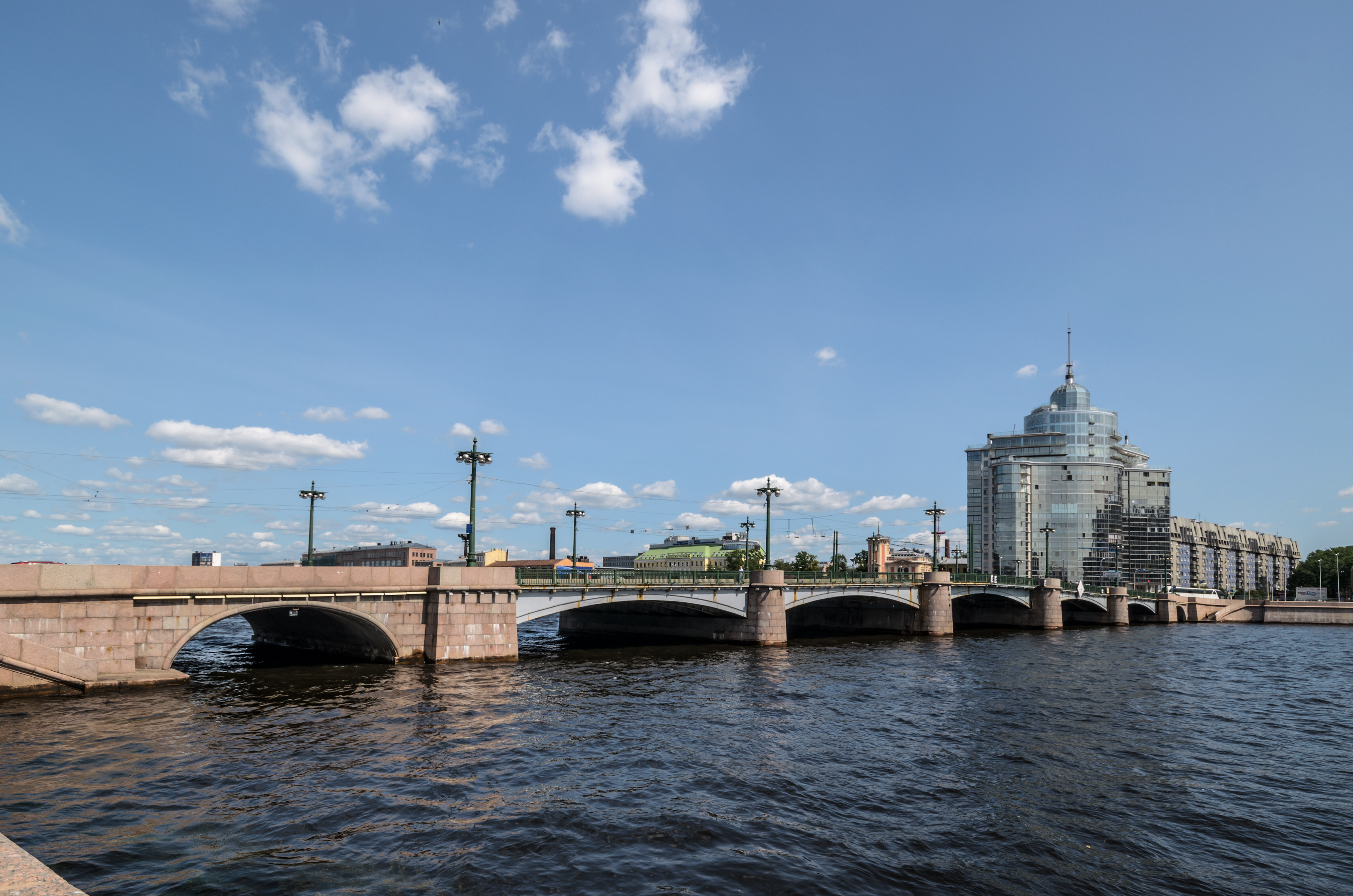 Sampsonievsky Bridge in Saint Petersburg